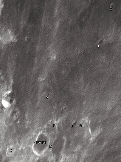 Crozier lunar crater as seen from Earth with satellite craters labeled